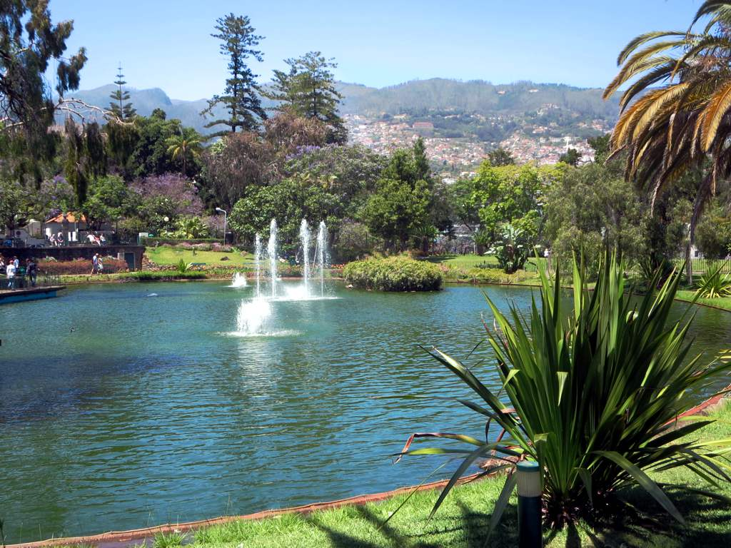 Birds nest on a small island in the lake at Santa Catarina Park in Funchal, Madeira.